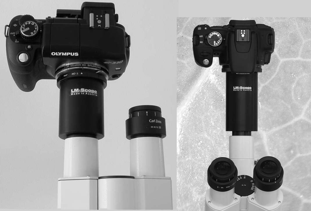 Microscope with LM digital adapter ( and Canon EOS 350D mounted to a phototube (C-mount thread), and Olympus E330 / E-510 attached to an ocular tube